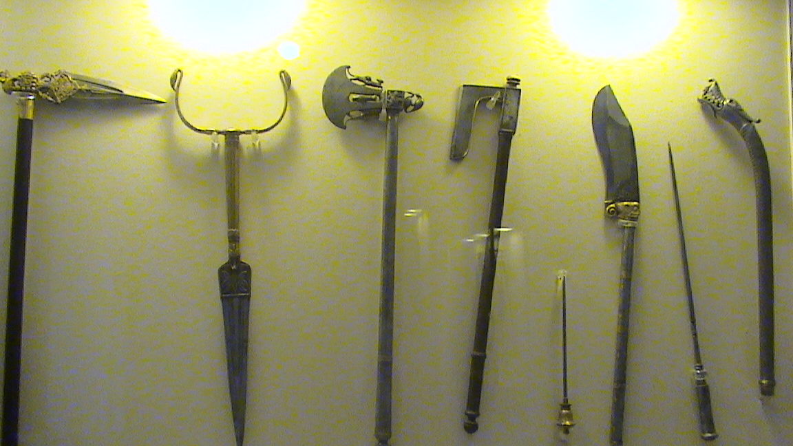 (From left to right, 1.zaghnal axe/war hammer, 2.unknown, 3. tabar axe, 4.tabar axe 5.bhuj, 6 mace.)